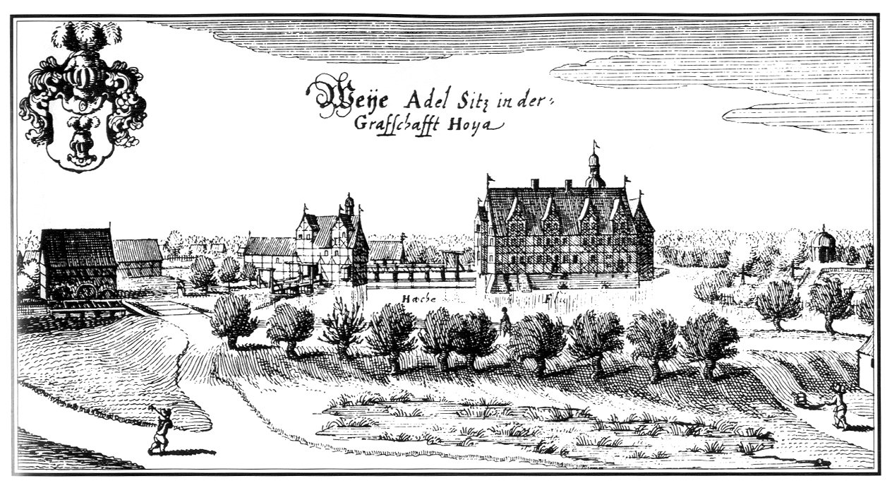 Copper Engraving by Matthäus Merian that shows Weyhe, Lower Saxony